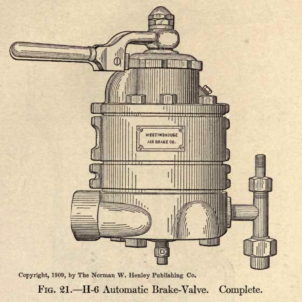 Control valve and handle of a Westinghouse Air Brake system